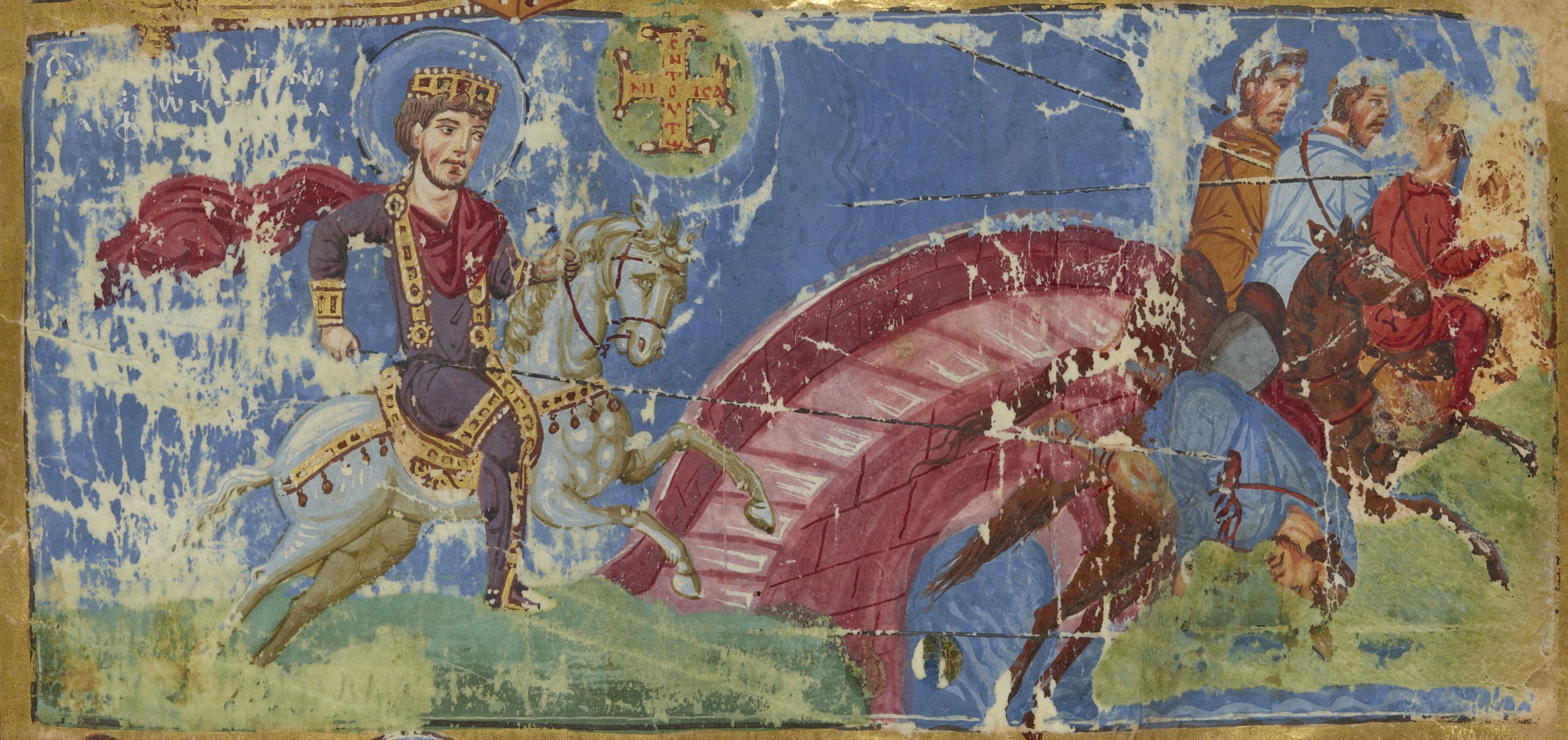 Constantine's vision and the Battle of the Milvian Bridge in a 9th century Byzantine manuscript. According to Greek writer and bishop Eusebius, the Roman emperor Constantine's army had a vision in the sky at midday accompanied by the words ἐν τούτῳ νίκα (en toútōi níka: 'in this, conquer'), sometime before the Battle of the Milvian Bridge in October 312 AD, which prompted Constantine's conversion to Christianity. In the battle on the Pons Mulvius across the Tiber at Rome, Constantine's soldiers defeated his rival Maxentius at the climax of his six year-long struggle for sole possession of the title 'Augustus' in the West, while Maxentius and his men were cast into the river as the bridge collapsed during the rout. Detail from a Greek manuscript dated 879-883 AD and containing the homilies of Gregory of Nazianzus, now in the National Library of France. (BnF MS Gr510 folio 440 recto - detail)